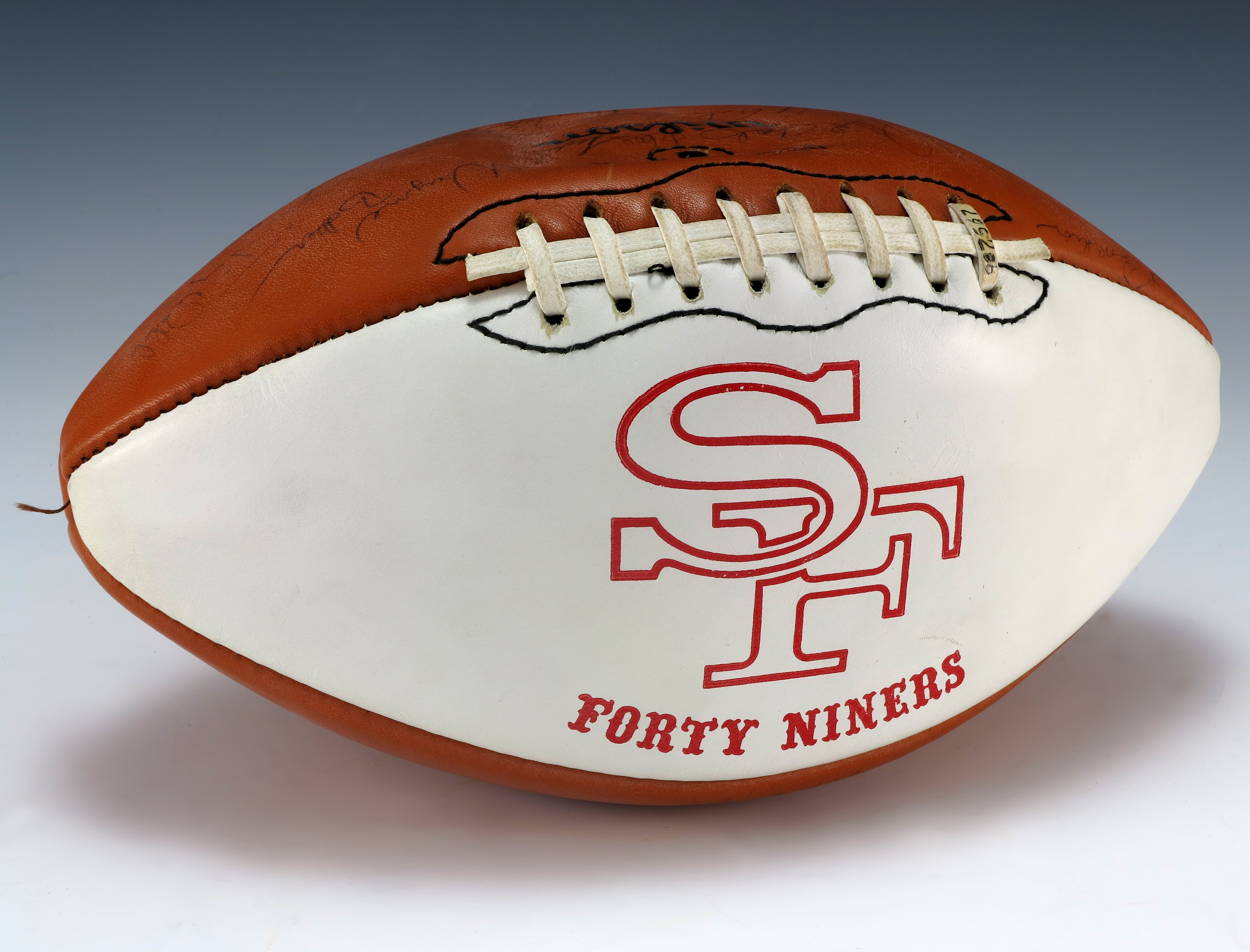 Football signed by Steve Spurrier and 35 others from a 49ers team. The ball also sports the 49ers logo on a white quarter of the football.